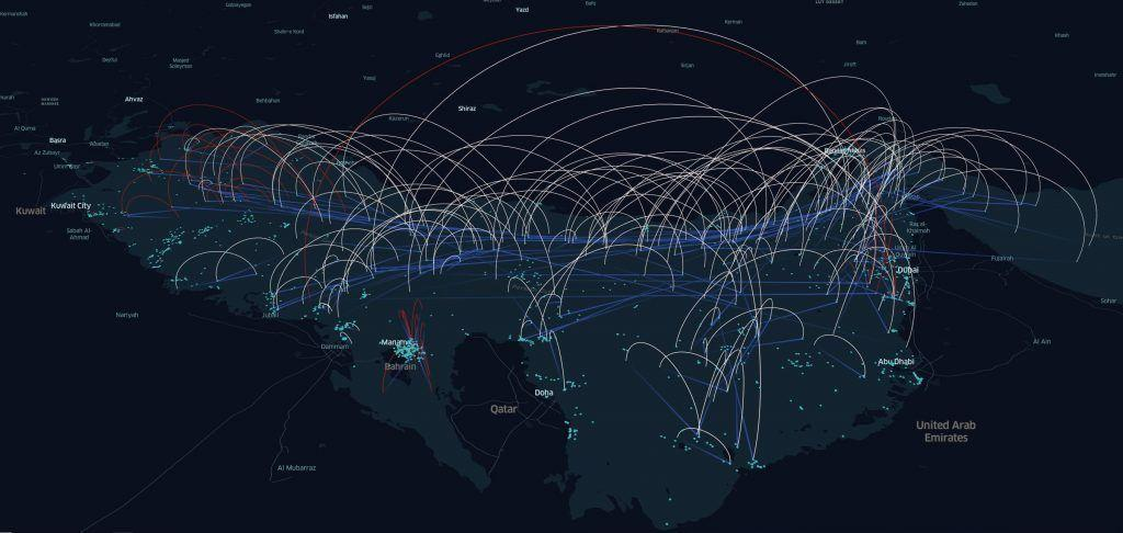 Visualization - using Kepler - of Spire Global's 24h AIS archive over the Gulf of Oman